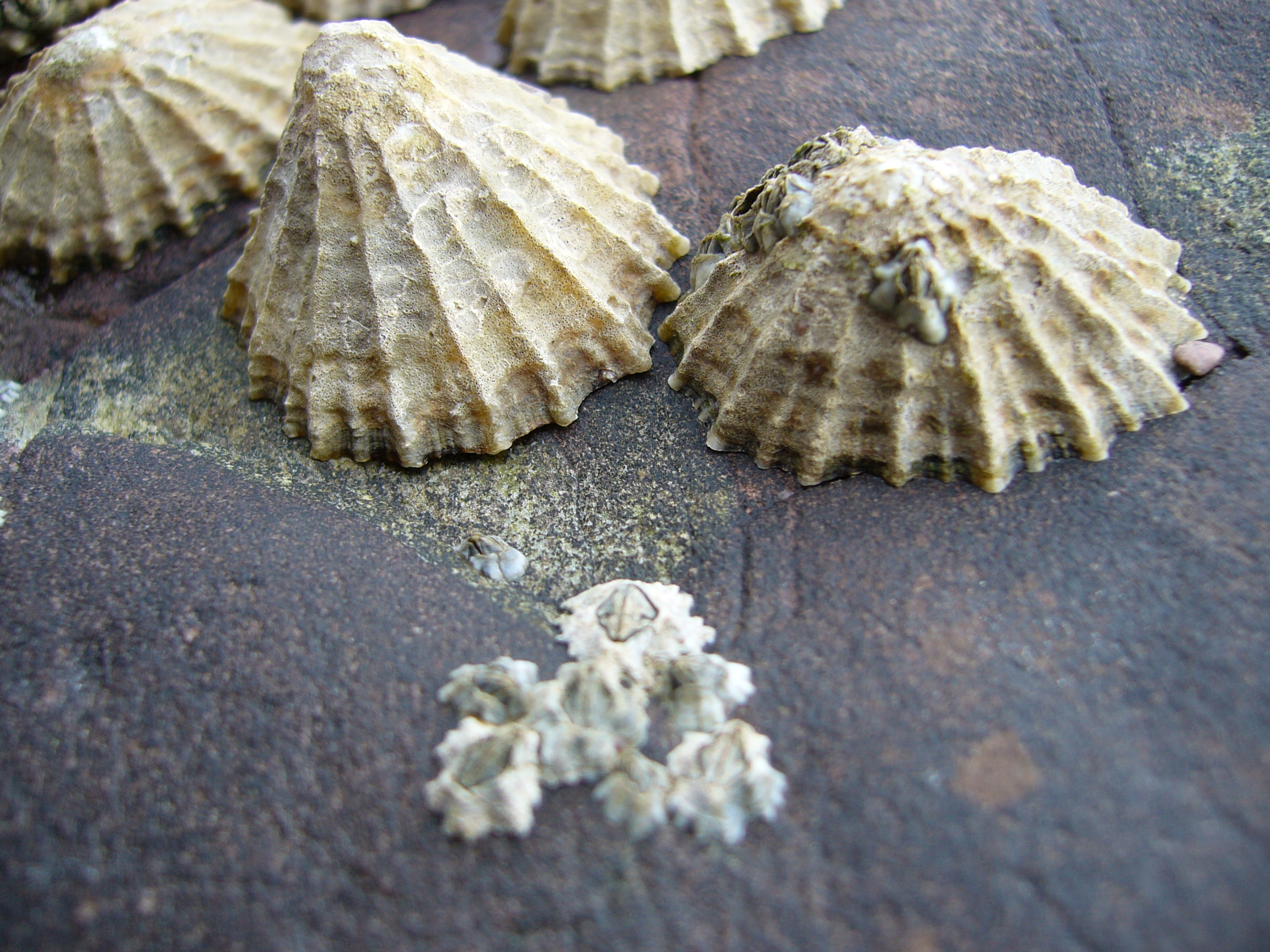 Common limpets at the Pembrokeshire coast, Wales